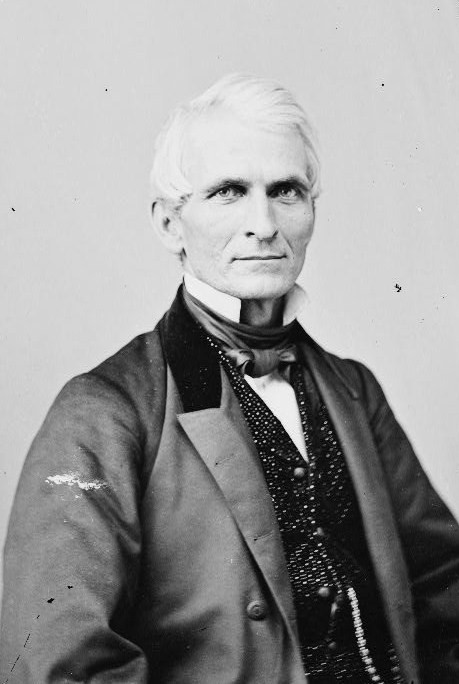 Photograph of Asahel W. Hubbard, an attorney, judge, Indiana legislator, and three-term Republican U.S. Representative from Iowa's 6th congressional district during the Civil War and the first stage of the Reconstruction era.(This version cropped to remove unexposed sections.